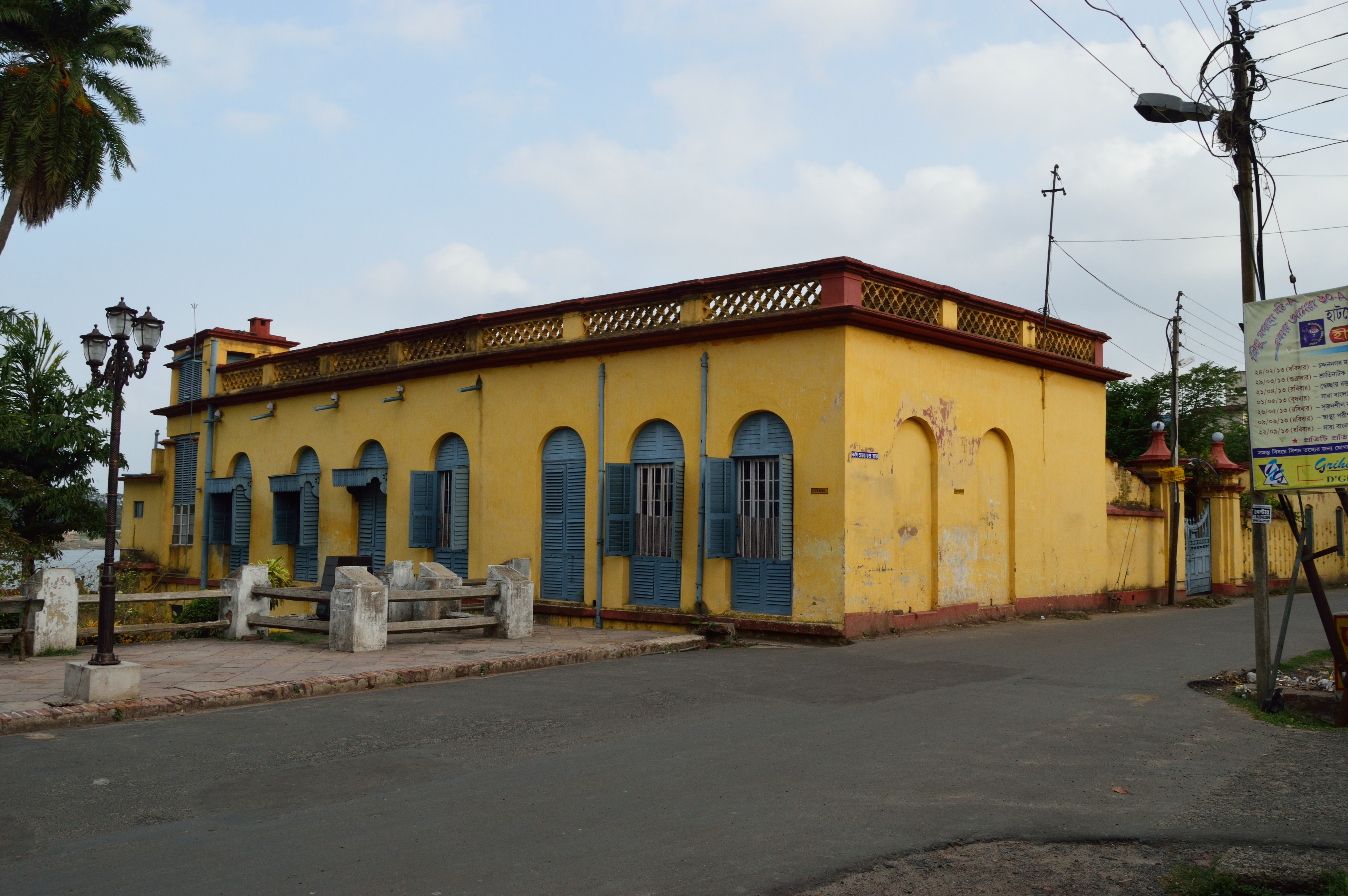 The Underground House or Palal Bari, photographed at Chandan Nagar or Chandannagar or Chandernagor in Hooghly, West Bengal.